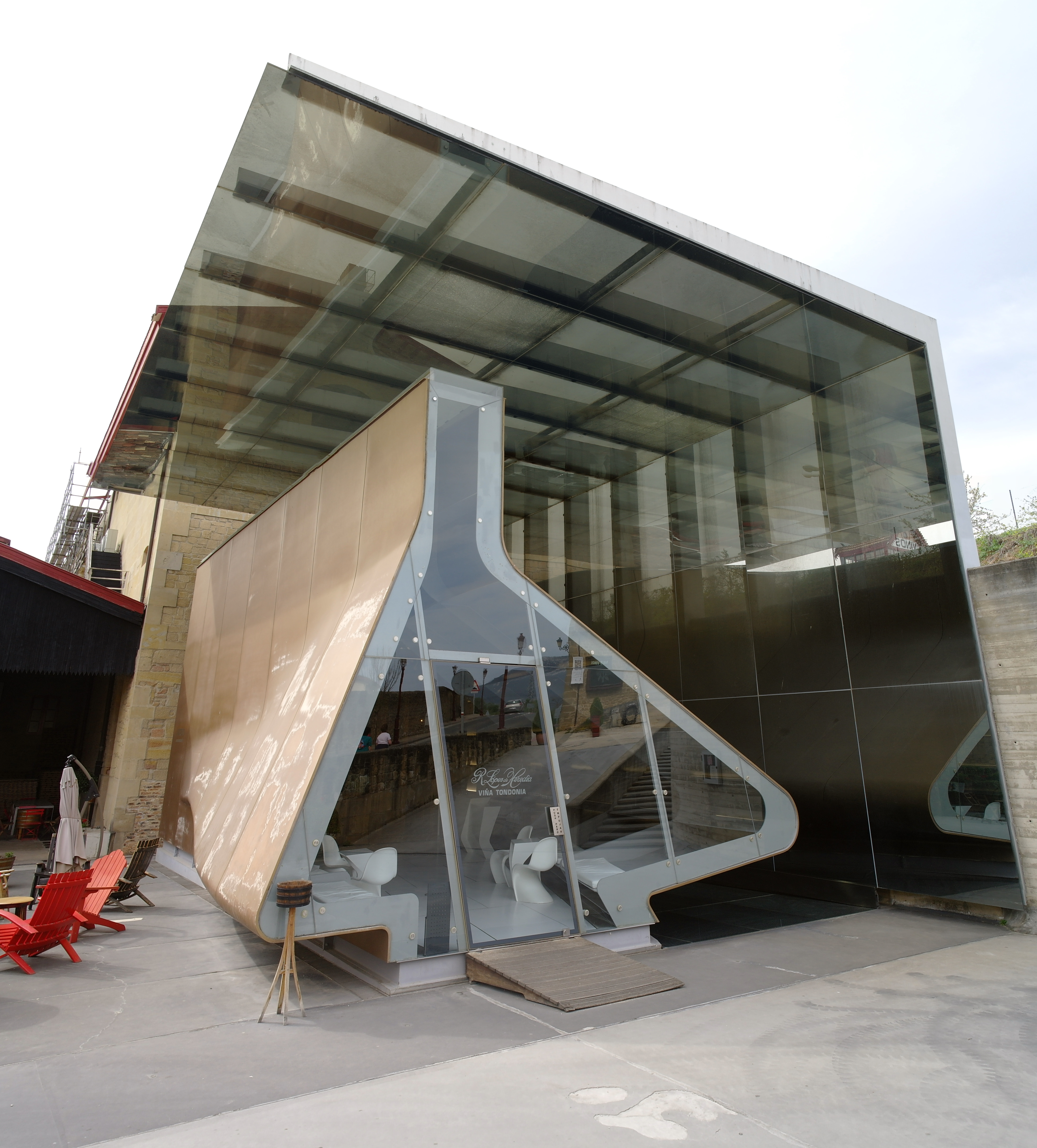 Zaha Hadid's Pavillion for Viña Tondonia Winery in Haro, La Rioja